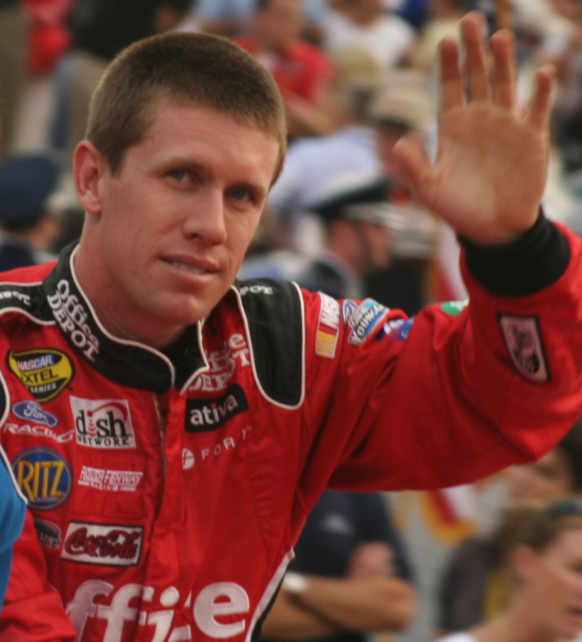 NASCAR driver Carl Edwards in August 2007 at Bristol Motor Speedway